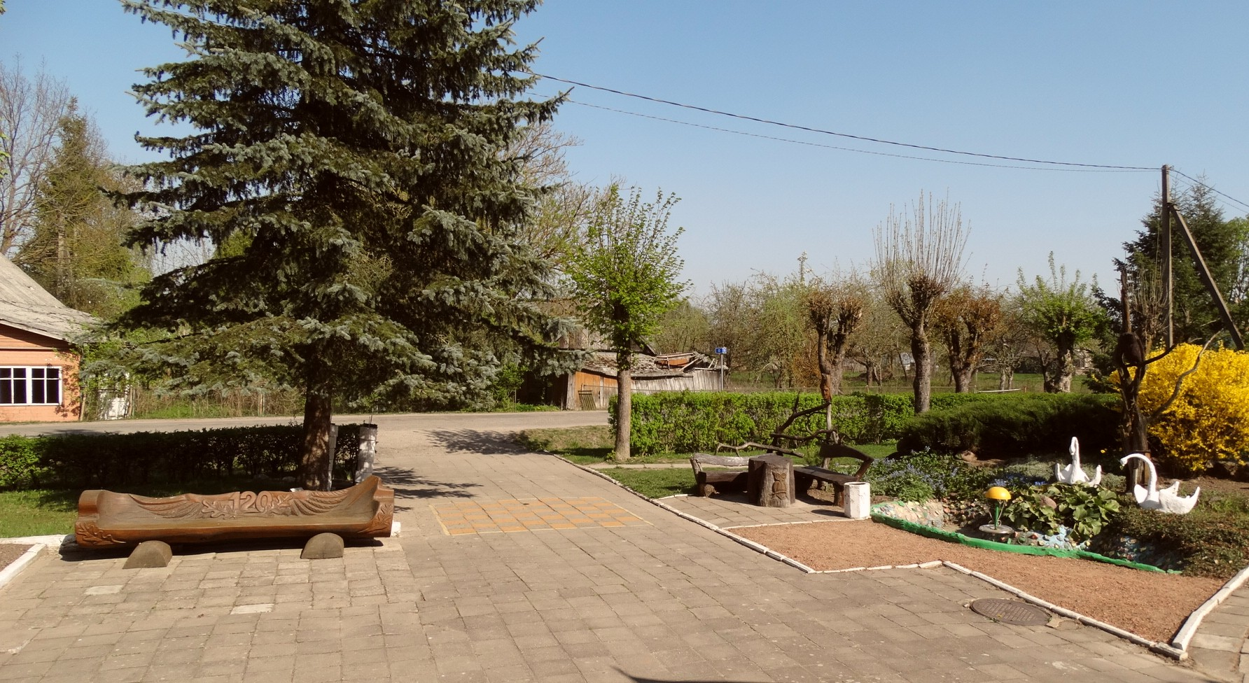 School in Pociūnėliai, Radviliškis District, Lithuania